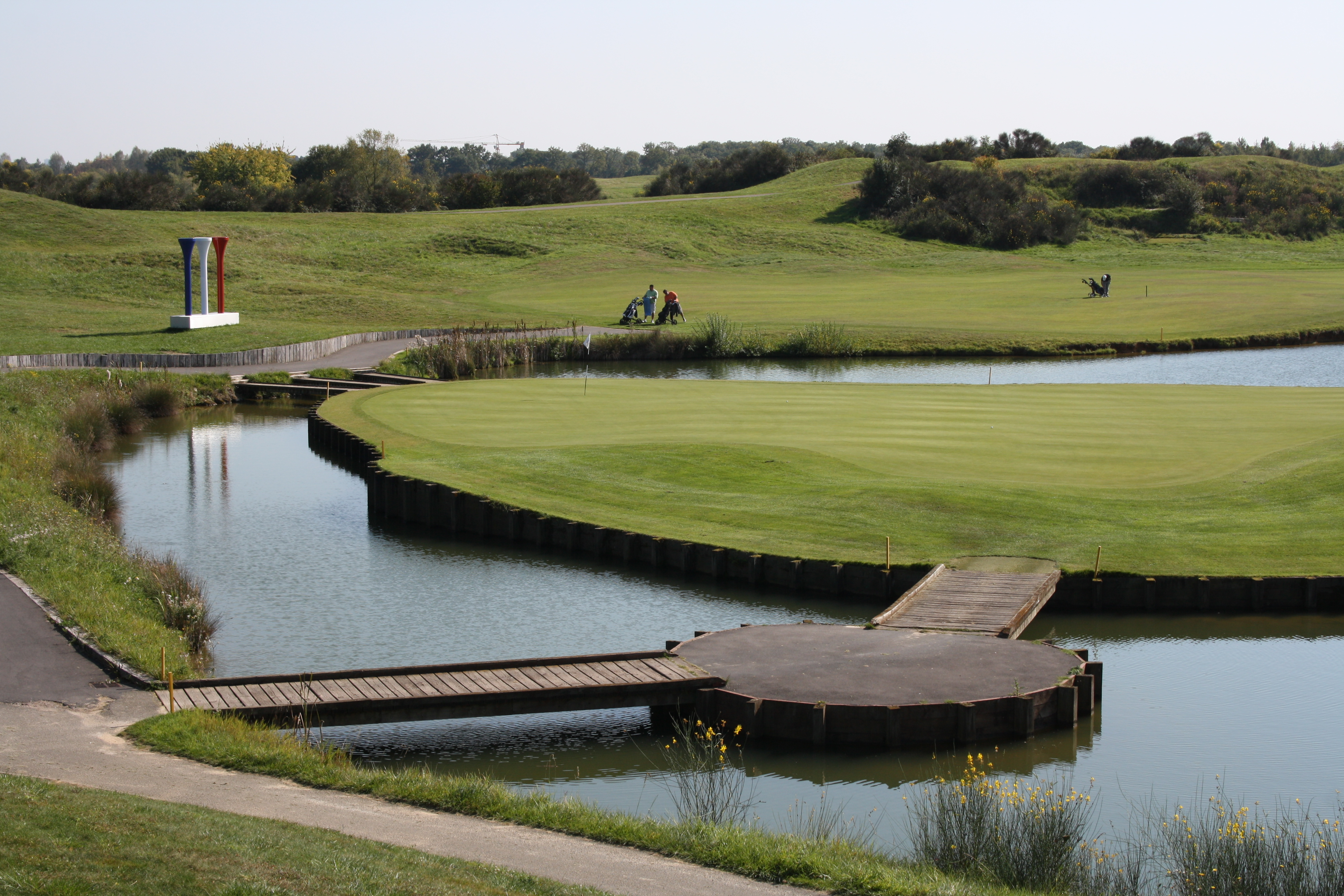 View of the Golf national, a golf course in Guyancourt, France.